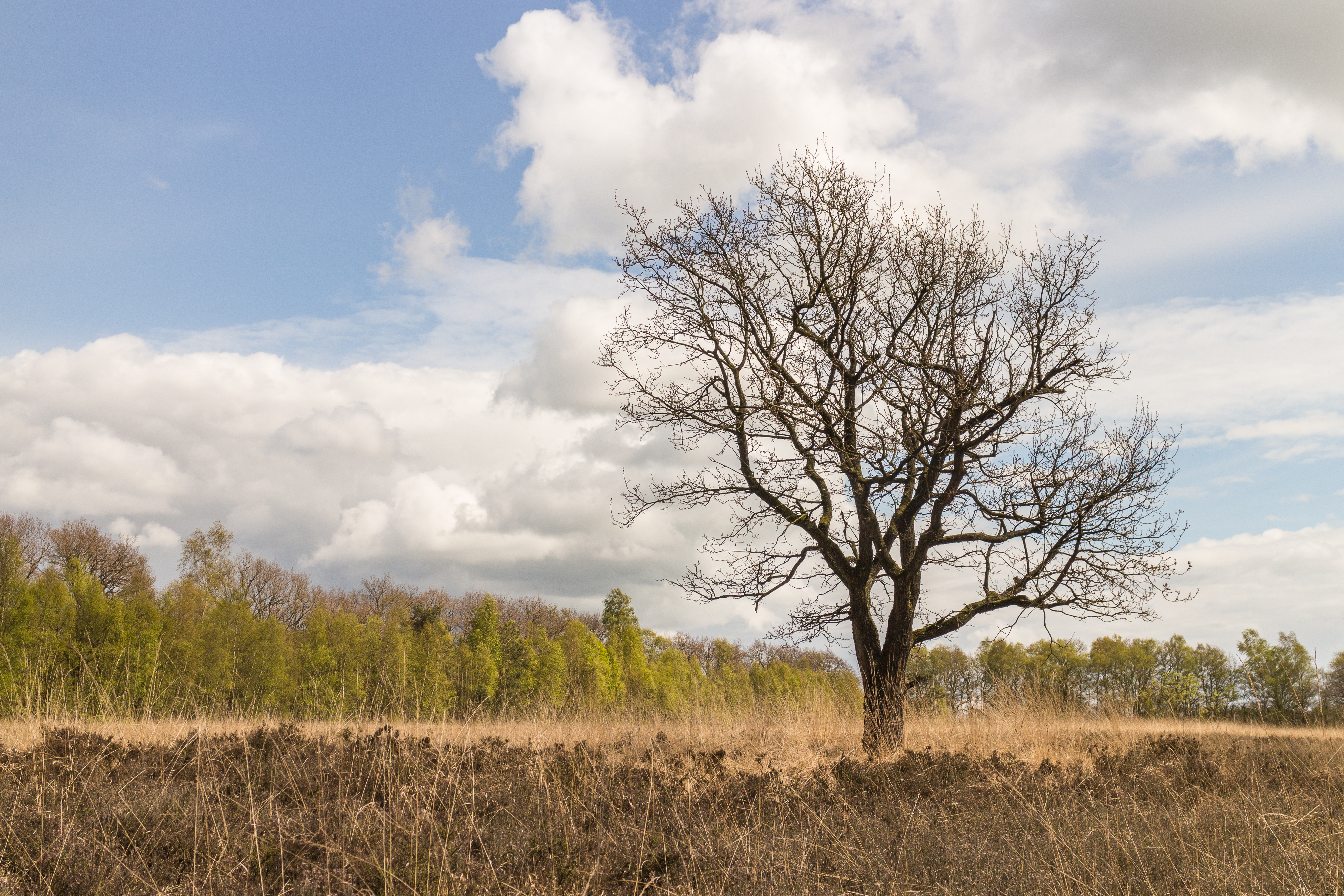 Wijnjeterper Schar, Natura 2000 area of Friesland province. Solitaire oak on heath field.